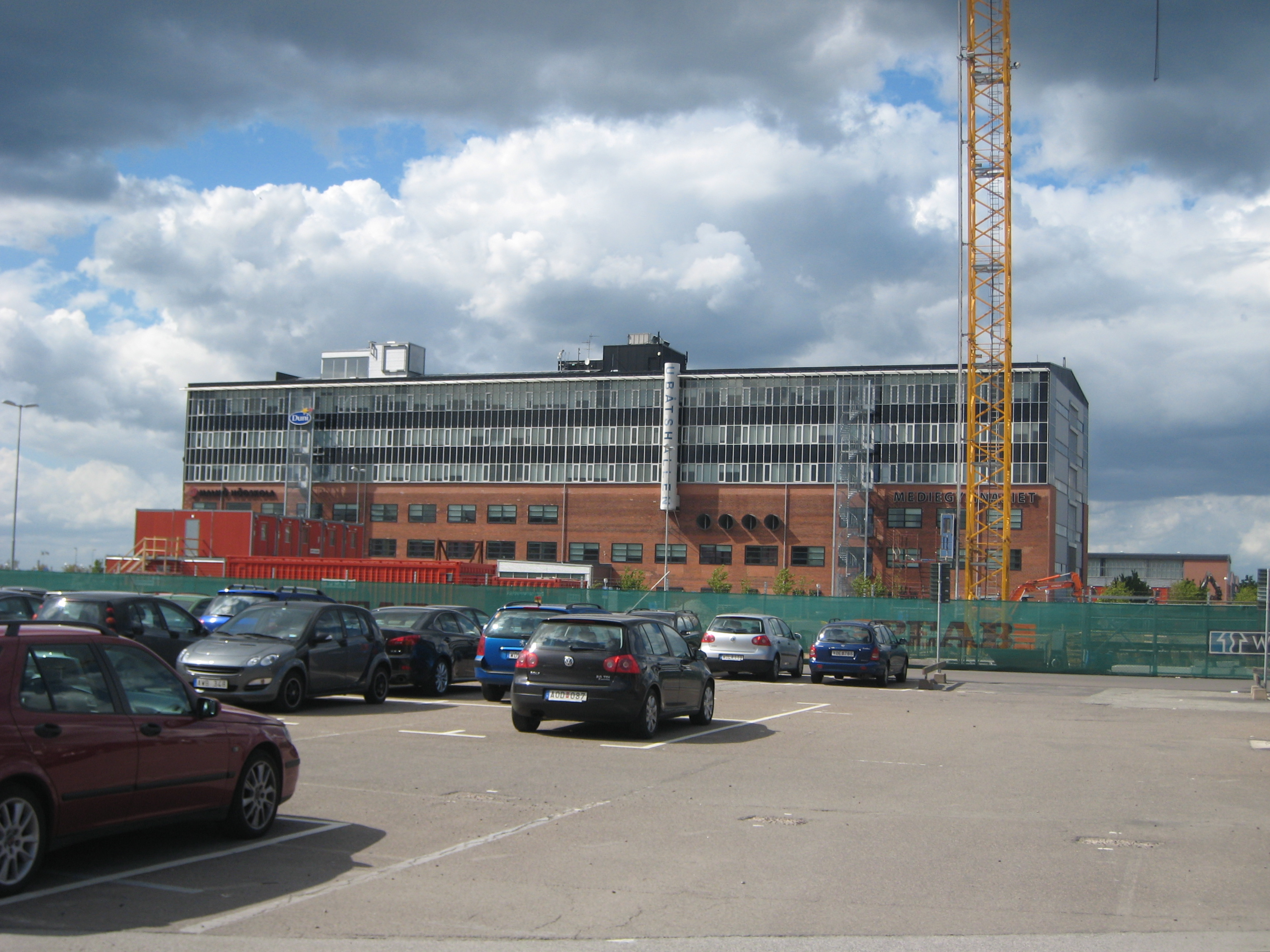 Office and education building in Malmö. HQ of Duni. Also used by Malmö Högskola and a college.